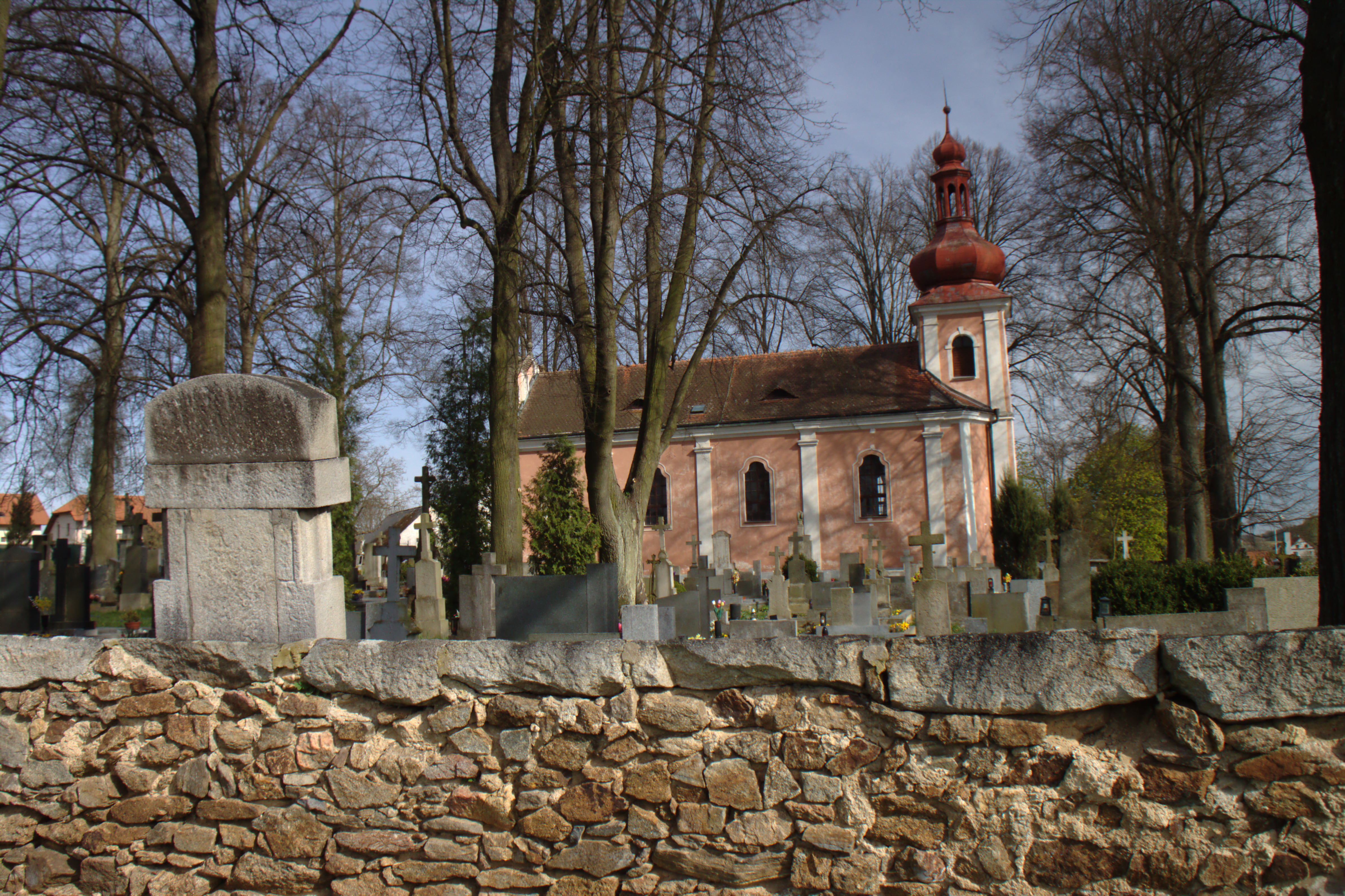 Local church in the village of Starý Pelhřimov, Vysočina Region, CZ